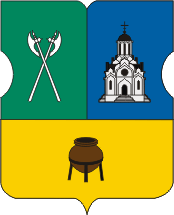 Taganskoe (municipality in Moscow), coat of arms